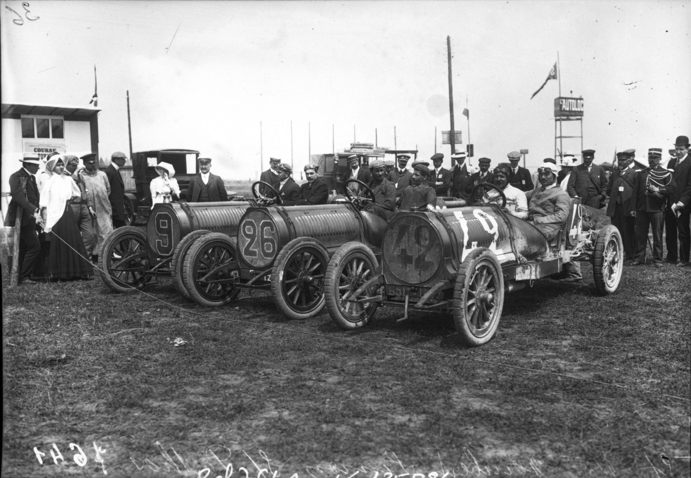 Emile Stricker (Porthos, #9), J. Gaubert (Porthos, #26) and Jules Simon (Porthos, #42) at the 1908 French Grand Prix at Dieppe.